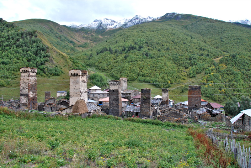 Ushguli Svaneti